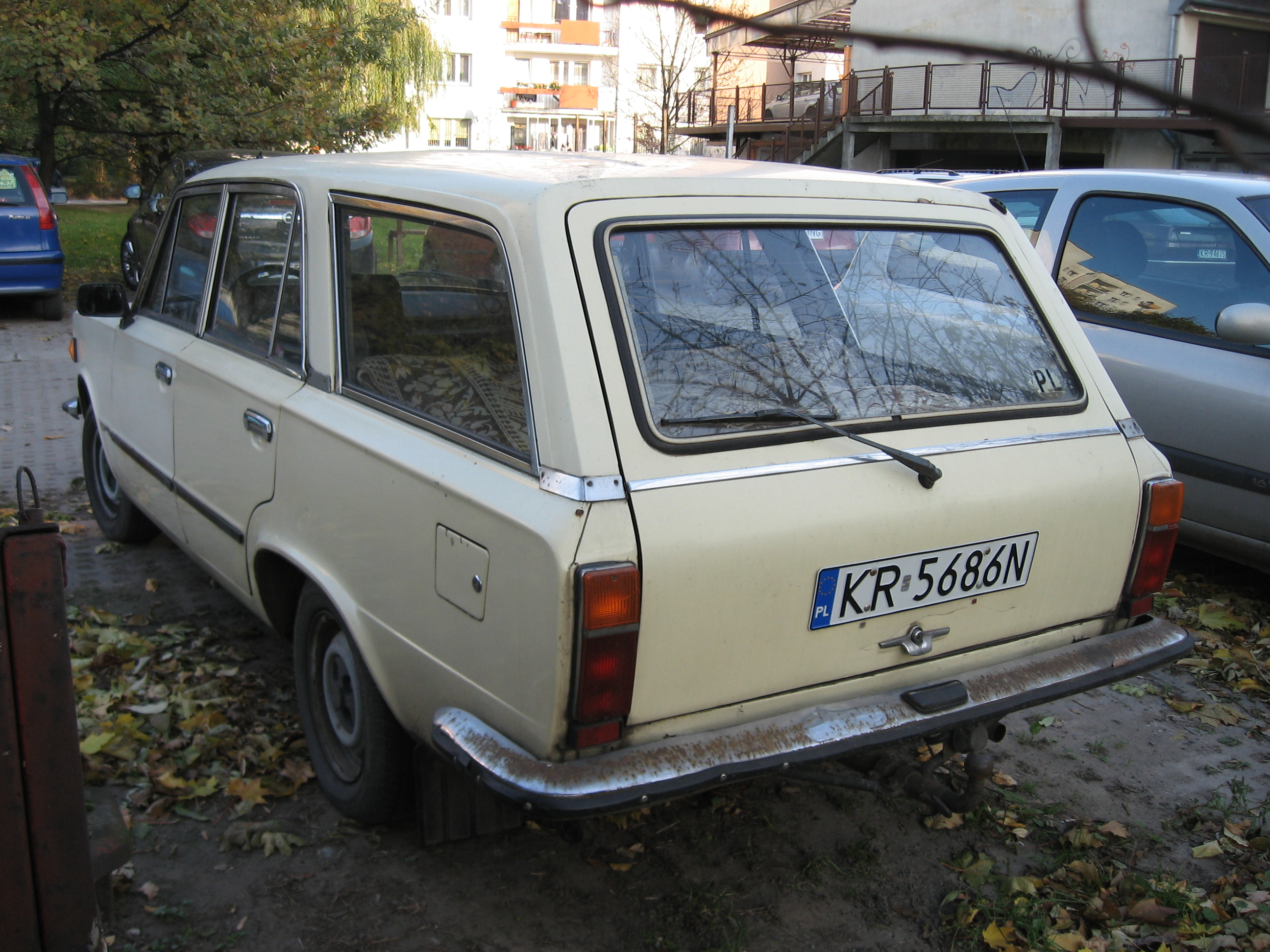 Beige FSO 125p Kombi on parking lot at Osiedle Podwawelskie in Kraków. This particular example was produced between April 1984 and January 1986.